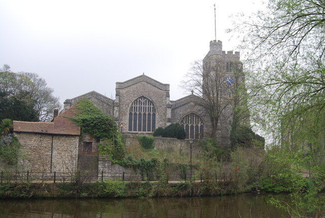 All Saints Church by the River Medway, Maidstone